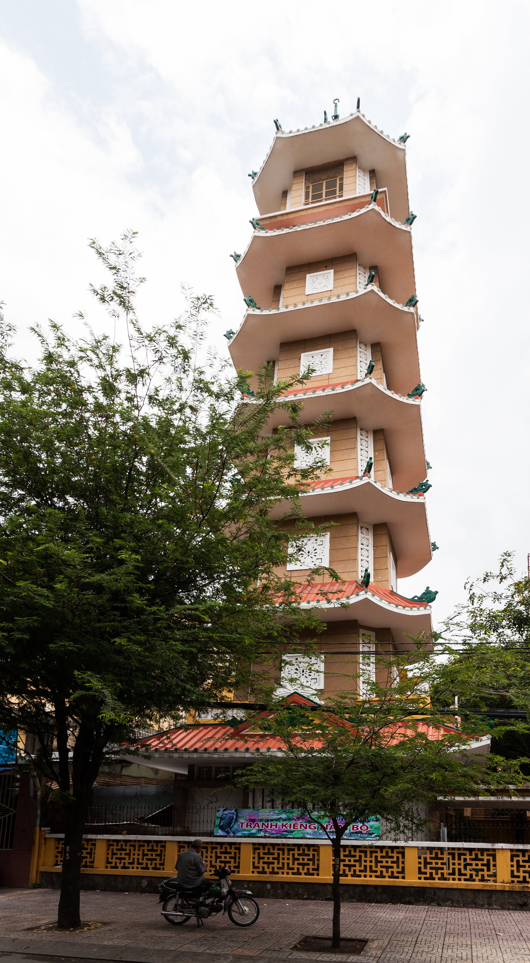 Xa Loi Pagoda, Ho Chi Minh City, Vietnam